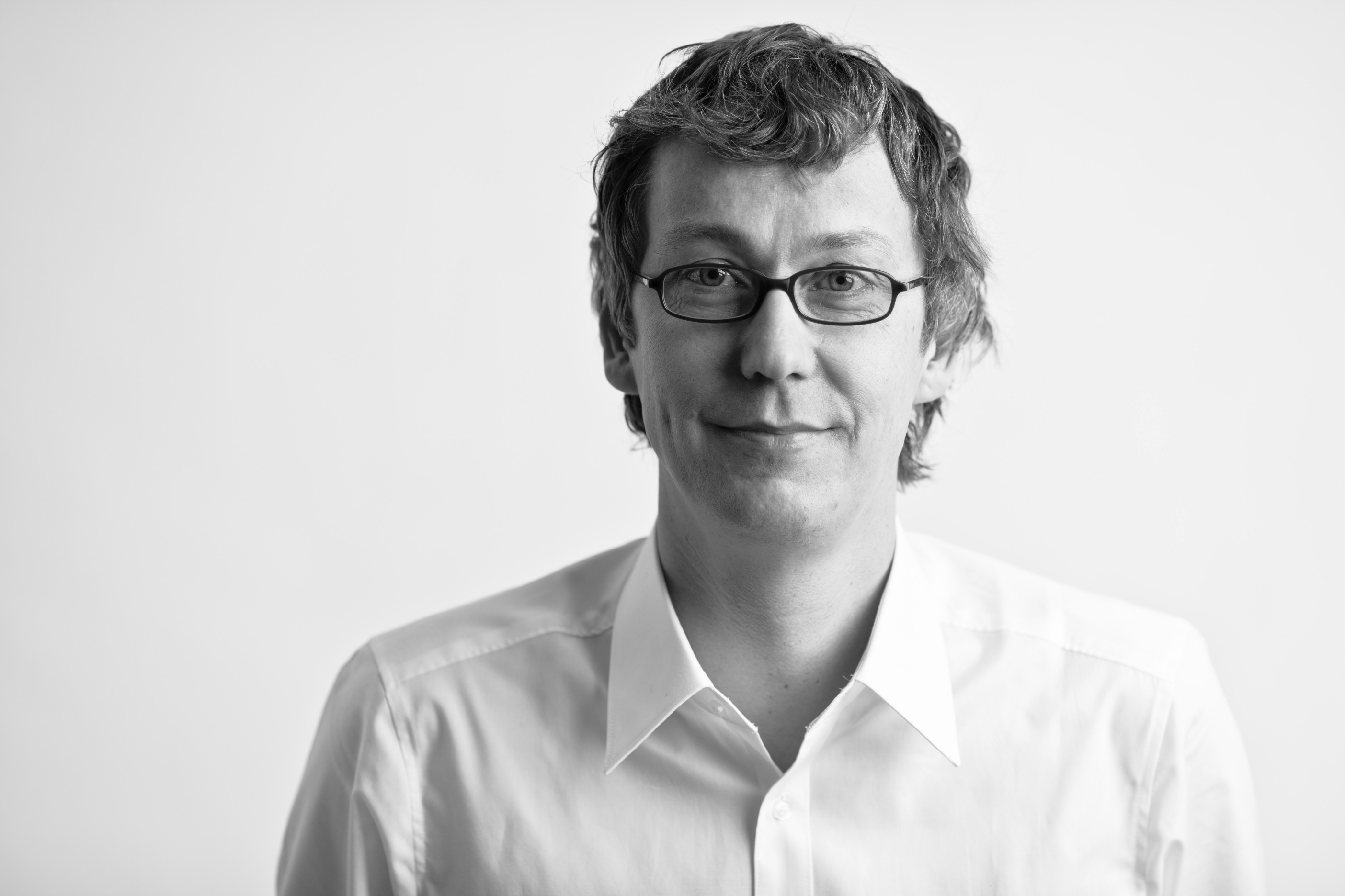 Only for editorial use! Nur fuer journalistische Zwecke!